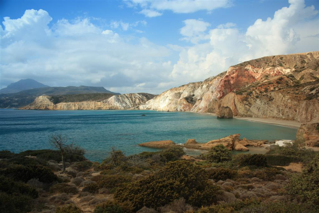 Firiplaka beach in Milos island, Greece